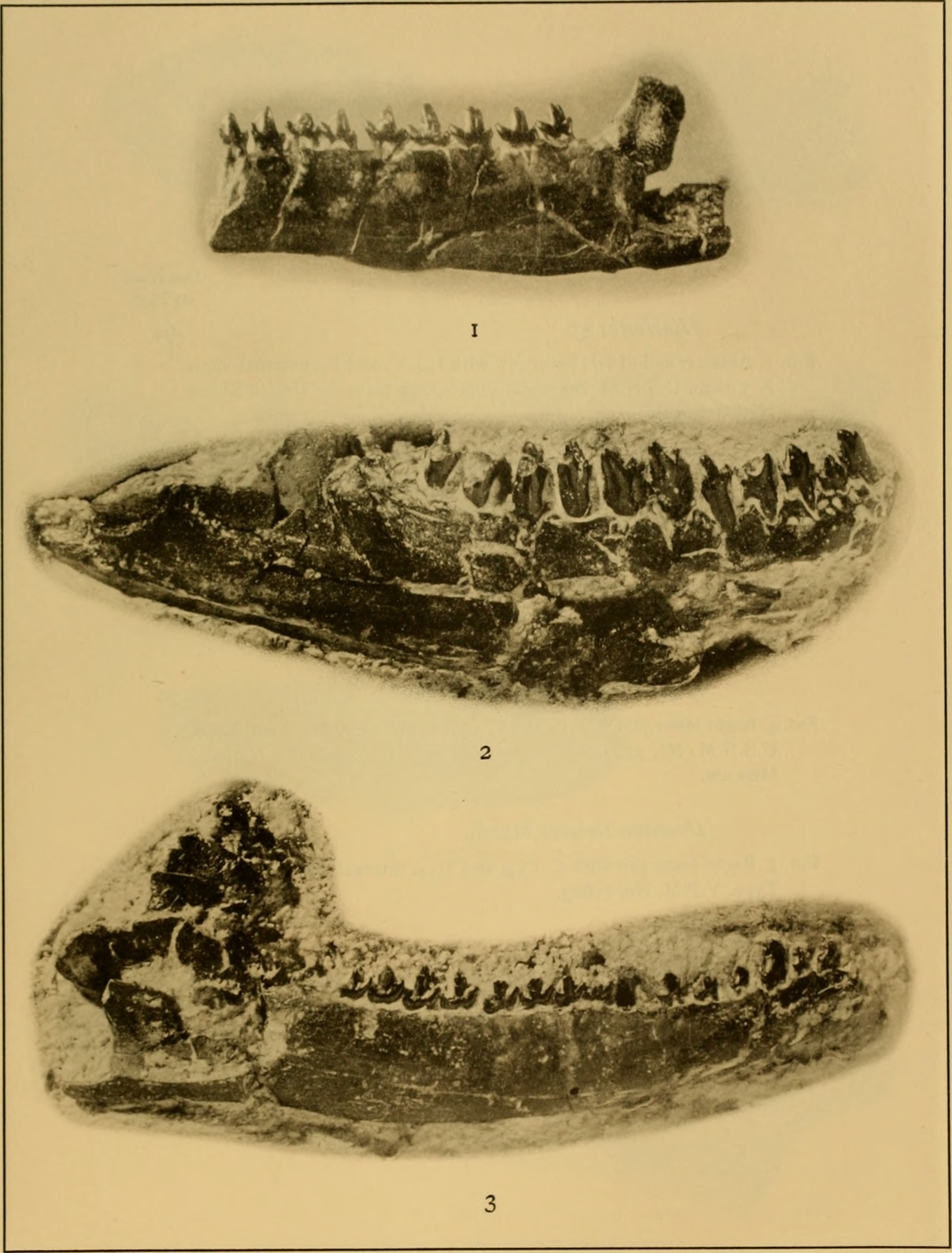 Title: American Mesozoic Mammalia Year: 1929 (1920s) Authors: Simpson, George Gaylord, 1902- Subjects: Mammals, Fossil; Paleontology -- Mesozoic; Paleontology -- North America Publisher: New Haven, Yale university press; London, H. Milford, Oxford university press Text Appearing Before Image: ' Text Appearing After Image: PLATE XXVIII—DRYOLESTES, LAOLESTES 227